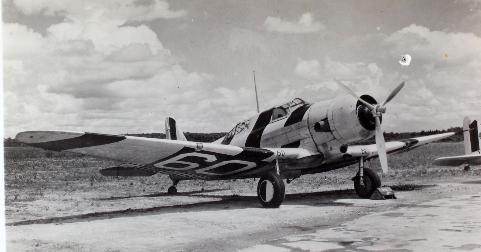 Image from the Charles Daniels Photo Collection album "British Aircraft." SOURCE INSTITUTION: San Diego Air and Space Museum Archive